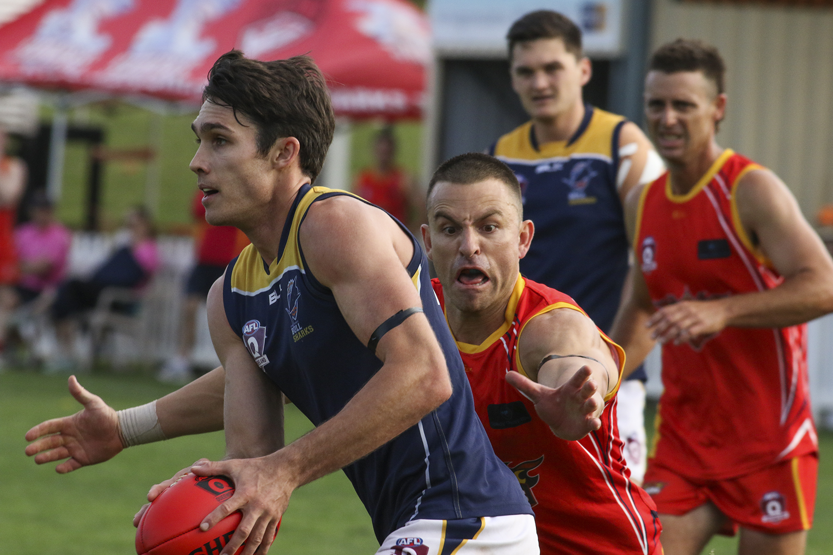 Player prepares to tackle opponent in Australian rules football match